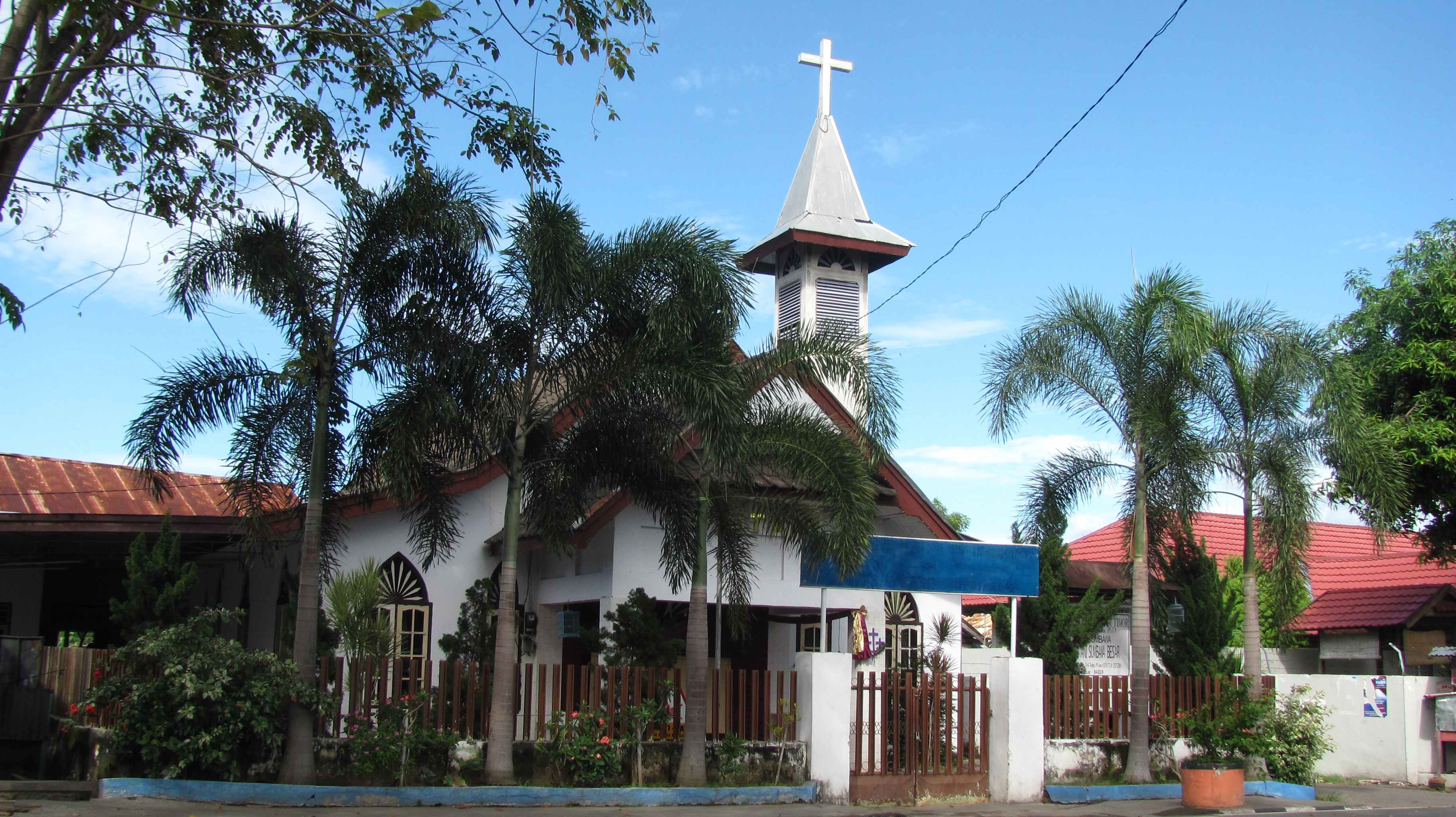 Dutch Reformed Church (Gereja Masehi Injili di Timor) in Sumbawa Besar, Sumbawa Island, Indonesia